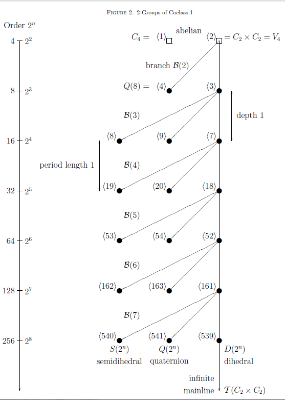 This diagram shows the tree of finite 2-groups of coclass 1, i.e., of maximal class, and the isolated vertex C(4). All vertices are labelled with their SmallGroups Library identifier in angle brackets. author User:DanielConstantinMayer